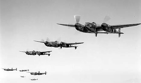 Lockheed P-38 eight aircraft formation